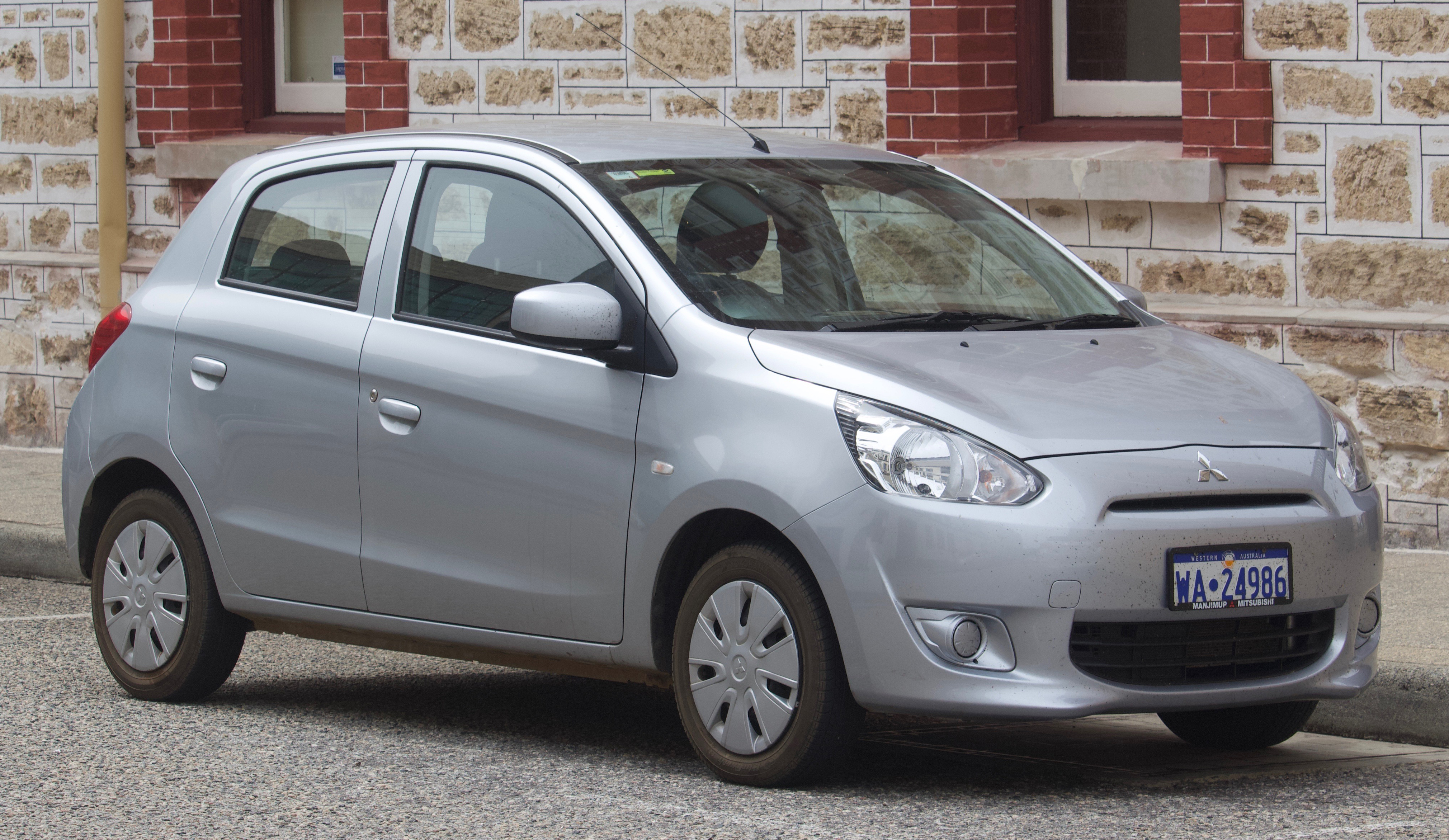 2013-2015 Mitsubishi Mirage (LA) ES hatchback. Photographed in Fremantle, Western Australia, Australia.